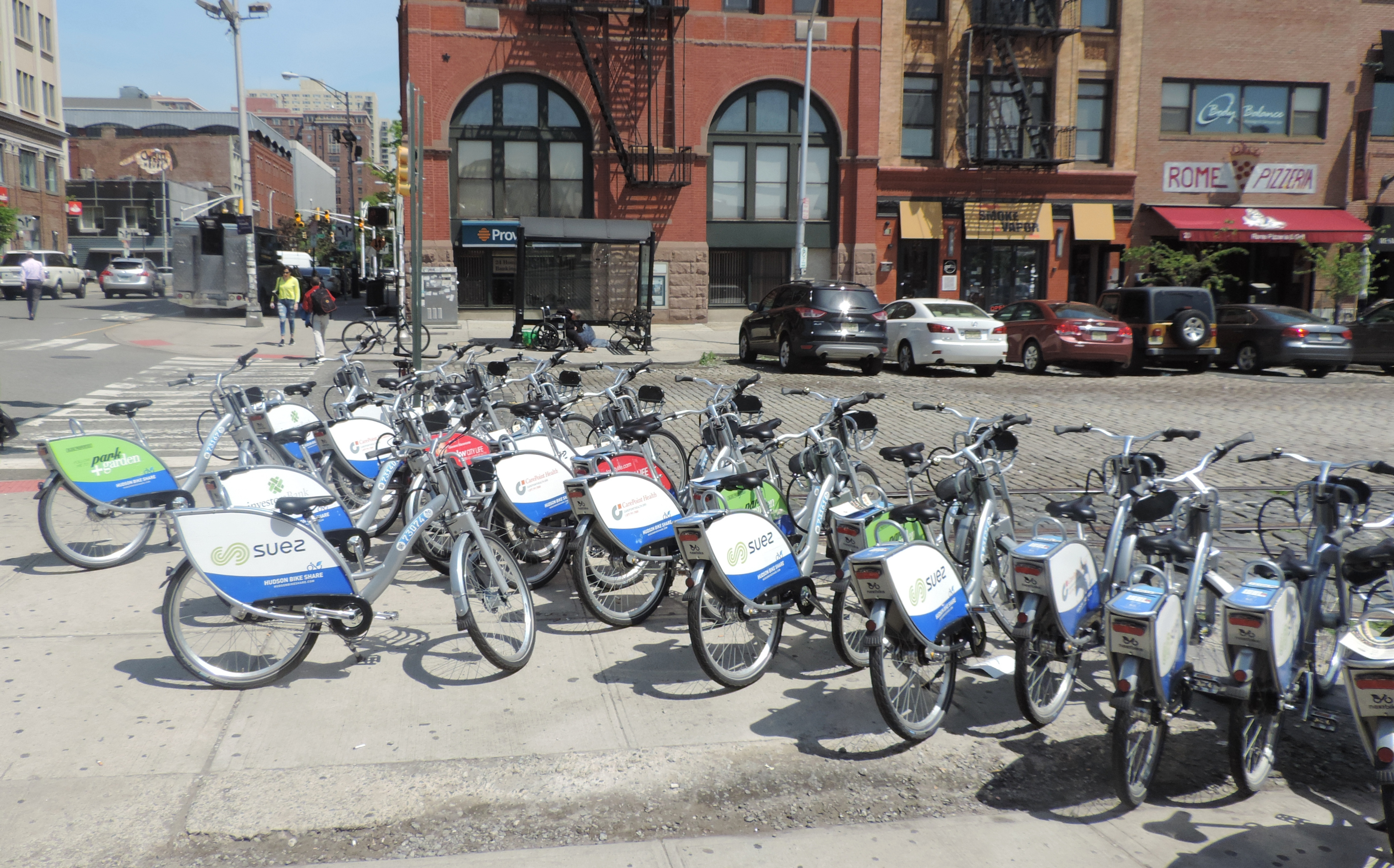 Looking north at Hudson Place station, with more Hudson Bike Share bikes than slots, on a sunny midday.